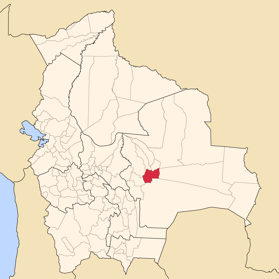 Map of Bolivia showing Andrés Ibáñez province, Santa Cruz